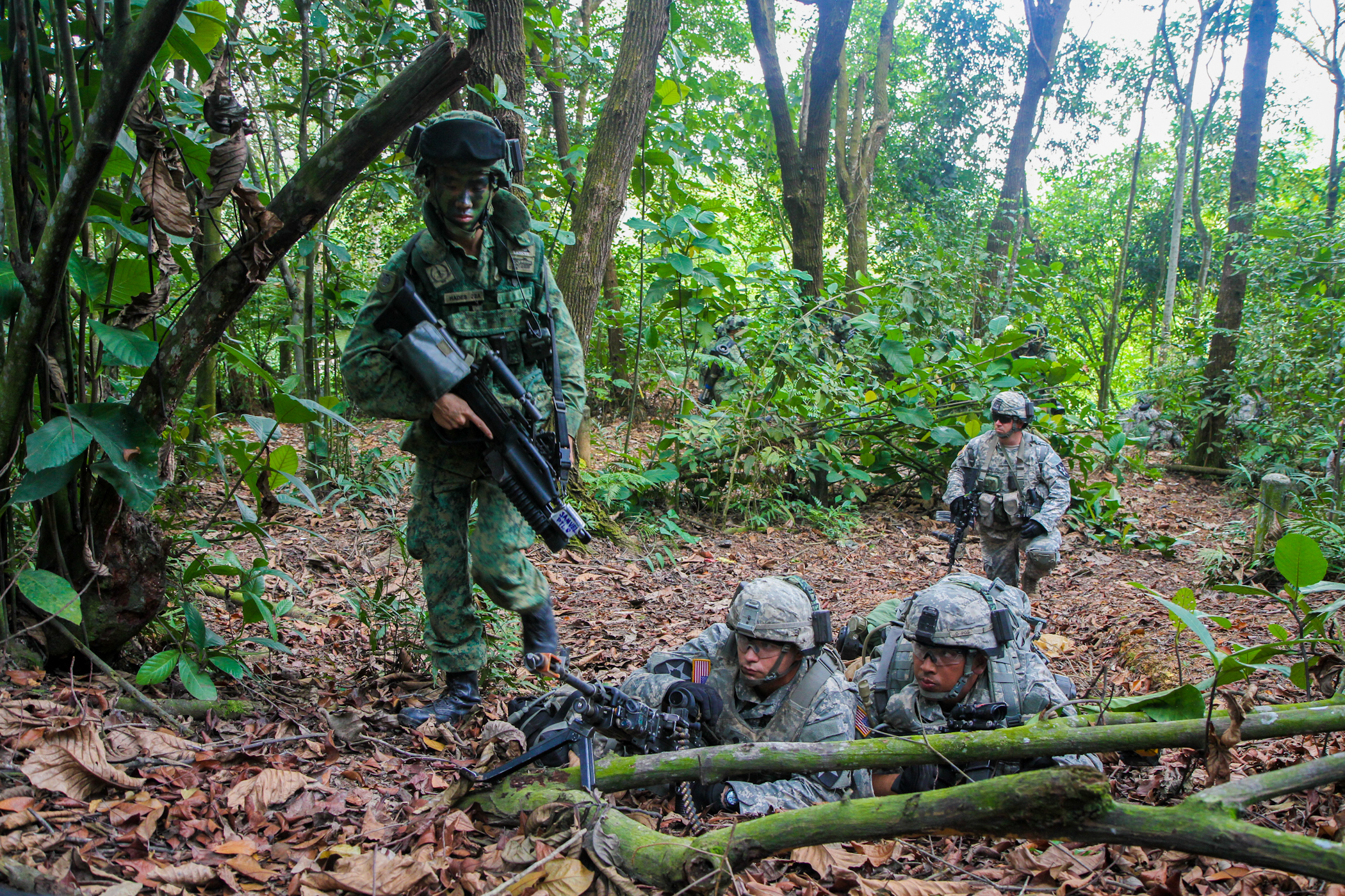 U.S. Army Spc. Kyle Schwab, an M240B gunner, and Pfc. Jonathan Rayas, an assistant gunner, both with Bravo Company, 4th Battalion, 23rd Infantry Regiment, 2nd Brigade, 2nd Infantry Division, pull security while a Singapore Armed Forces soldier with 2nd Battalion, Singapore Infantry Regiment, moves further into the jungle during field training as part of Exercise Lightning Strike in Singapore, July 24, 2013. Lightning Strike is a U.S. Army Pacific sponsored platoon-sized event that allows Singaporean and U.S. soldiers to share military techniques and experience. (U.S. Army photo by Staff Sgt. Justin A. Naylor/Released)